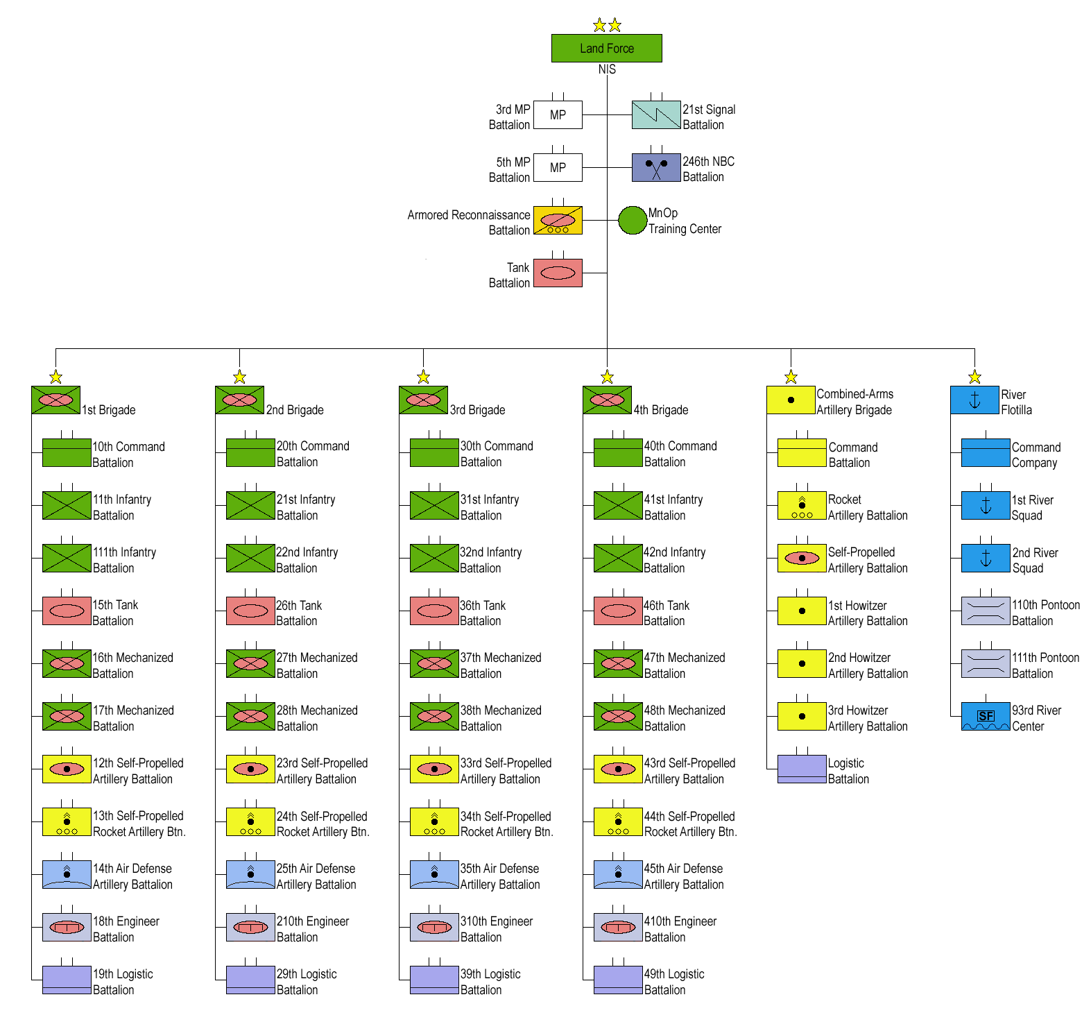 Structure of the Land Forces of Serbia 2007